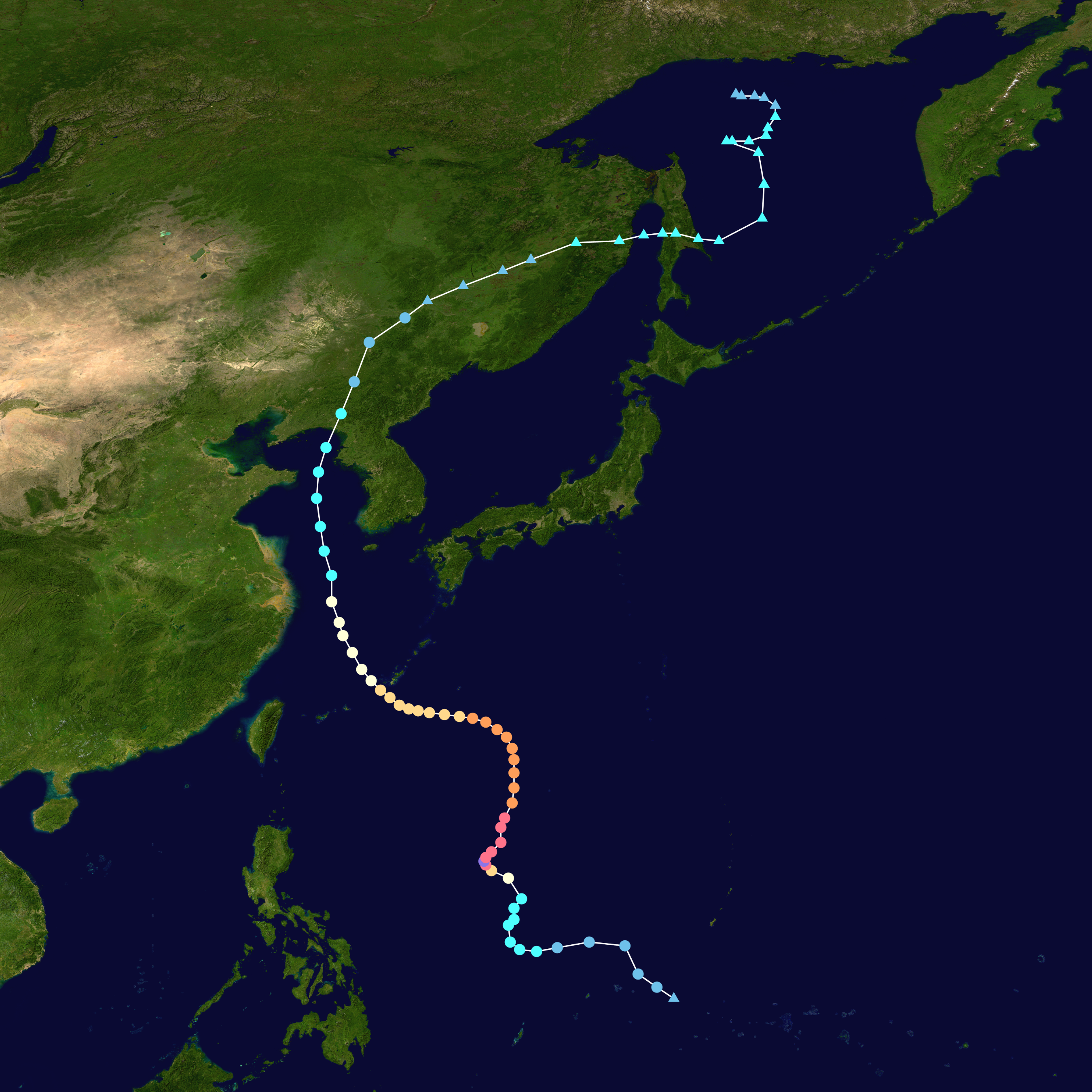 Track map of Typhoon Muifa of the 2011 Pacific typhoon season. The points show the location of the storm at 6-hour intervals. The colour represents the storm's maximum sustained wind speeds as classified in the Saffir–Simpson scale (see below), and the shape of the data points represent the nature of the storm, according to the legend below. Saffir–Simpson scale Tropical depression≤38 mph≤62 km/h Category 3111–129 mph178–208 km/h Tropical storm39–73 mph63–118 km/h Category 4130–156 mph209–251 km/h Category 174–95 mph119–153 km/h Category 5≥157 mph≥252 km/h Category 296–110 mph154–177 km/h Unknown Storm type Tropical cyclone Subtropical cyclone Extratropical cyclone / Remnant low / Tropical disturbance / Monsoon depression